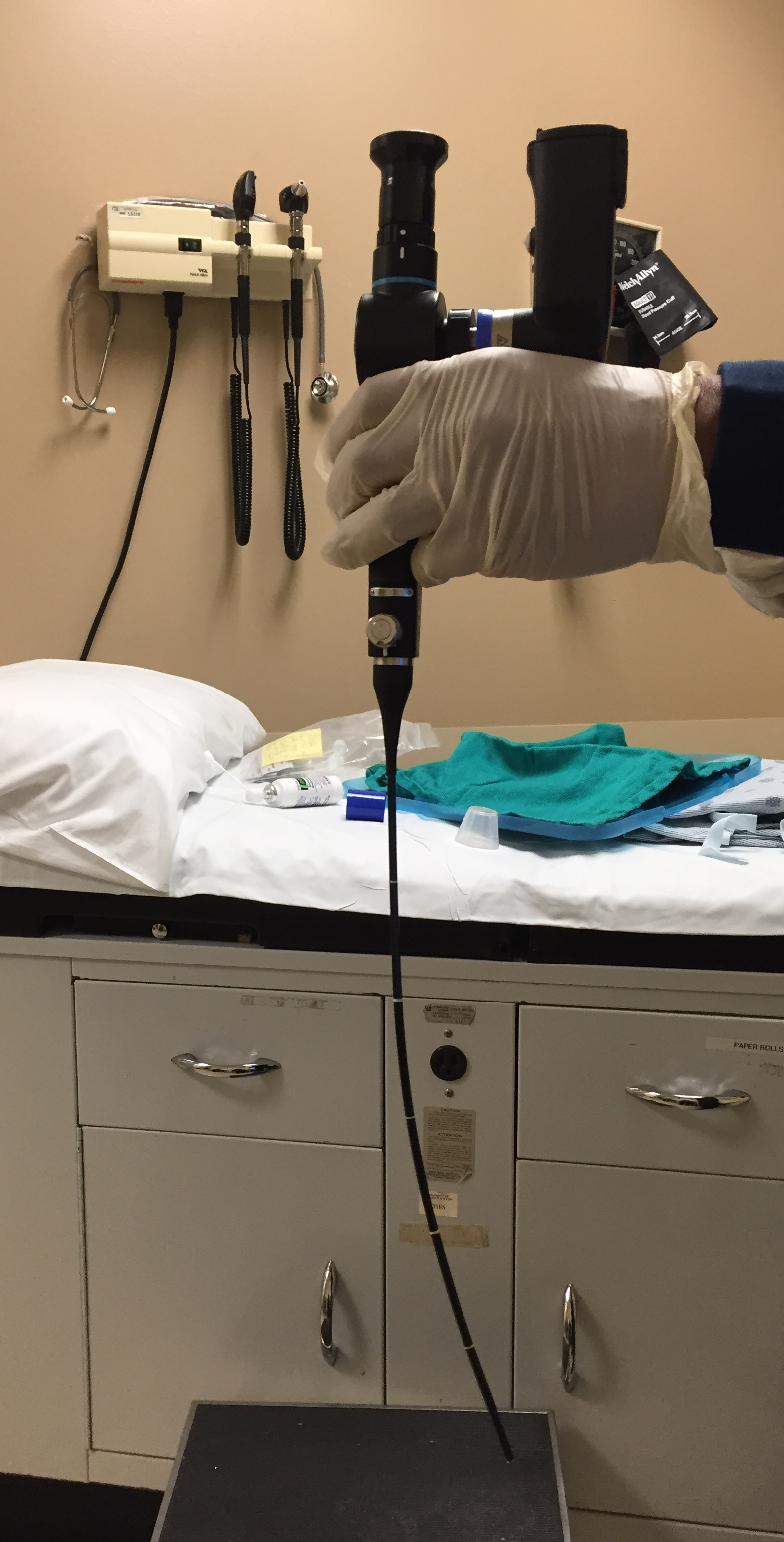 Rhinoscope used in diagnosis and surveillance of head and neck cancer